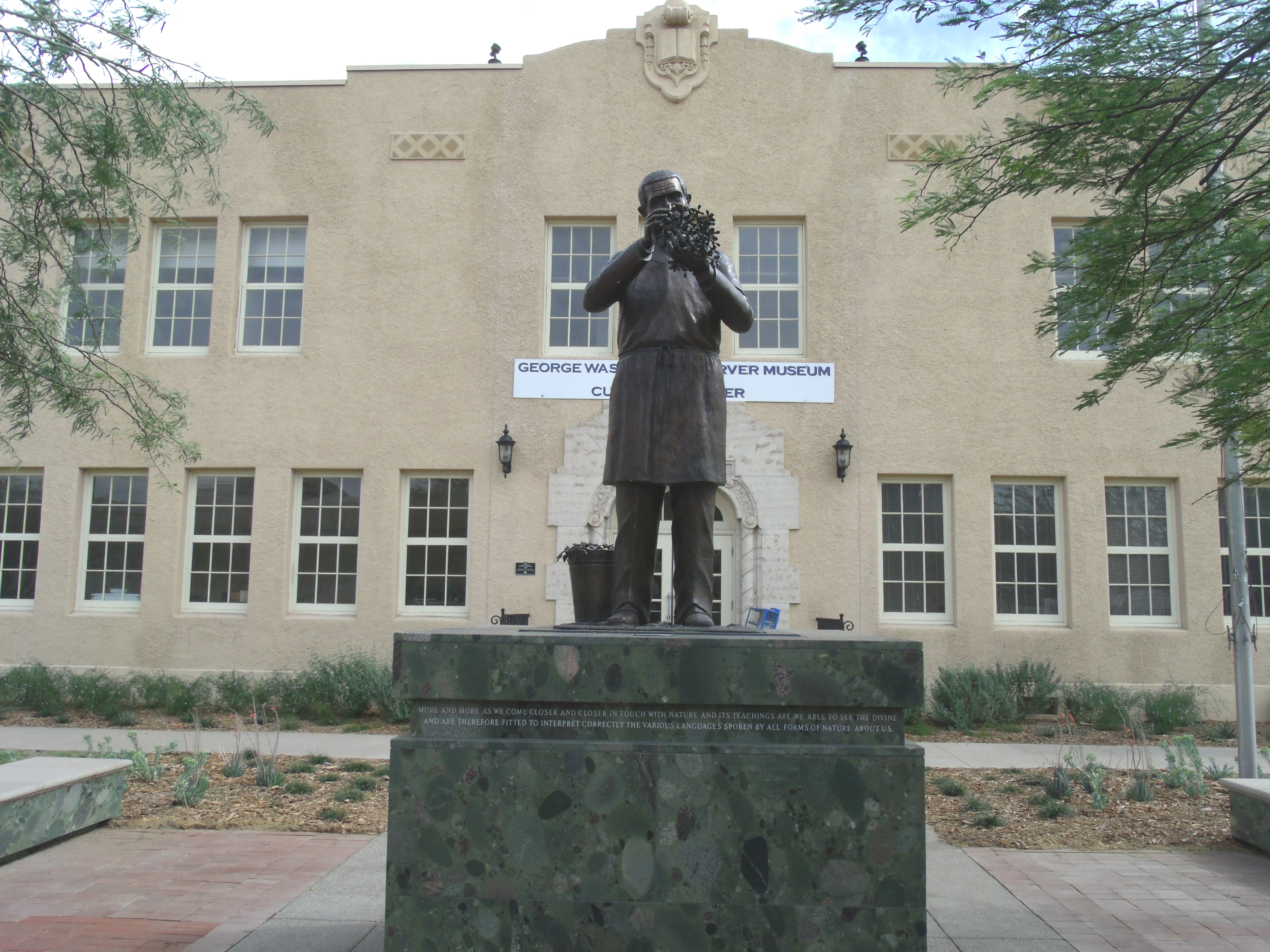 Historic (NRHP) Phoenix Union Colored High School built in 1926, in Phoenix, Arizona. The school was renamed the George Washinton Carver High School.